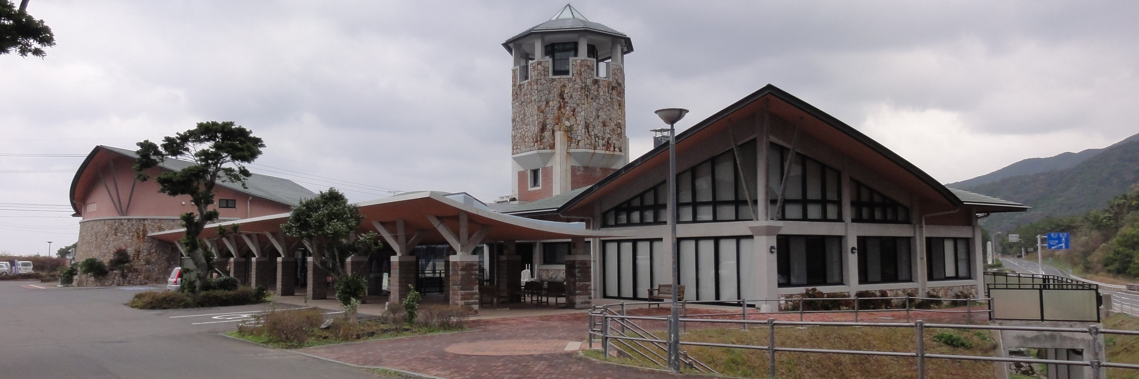 Road to station Kentoshi Furusatokan,Nagasaki prefecture,Japan